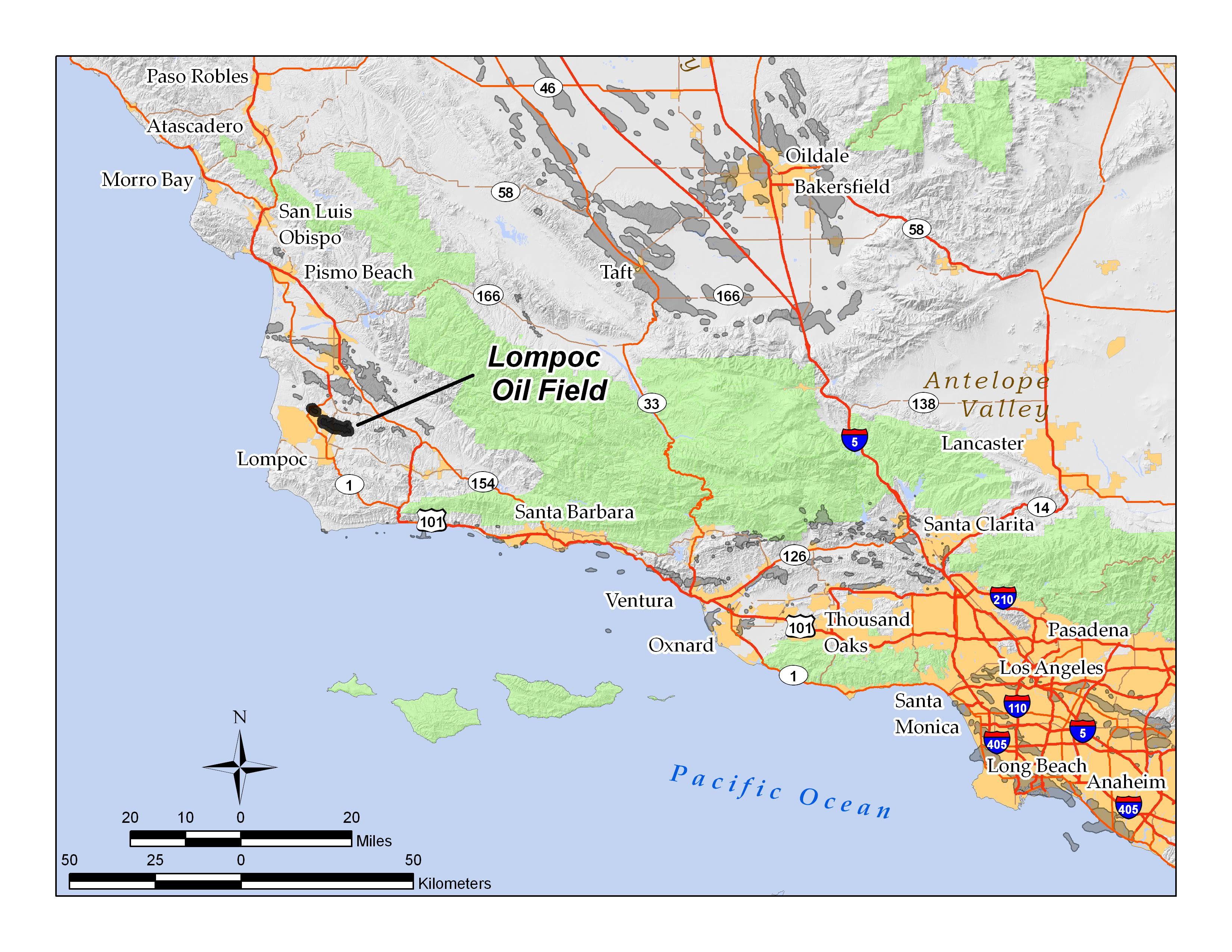 Location of Lompoc field; by self using ArcGIS 9.3; all data shown on this map is in the public domain